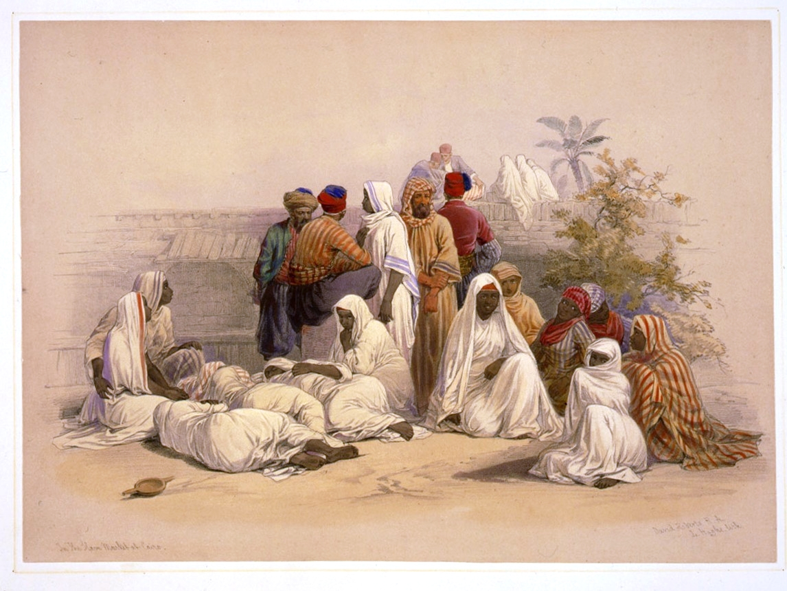 Picture of a print from David Roberts' Egypt & Nubia, issued between 1845 and 1849.